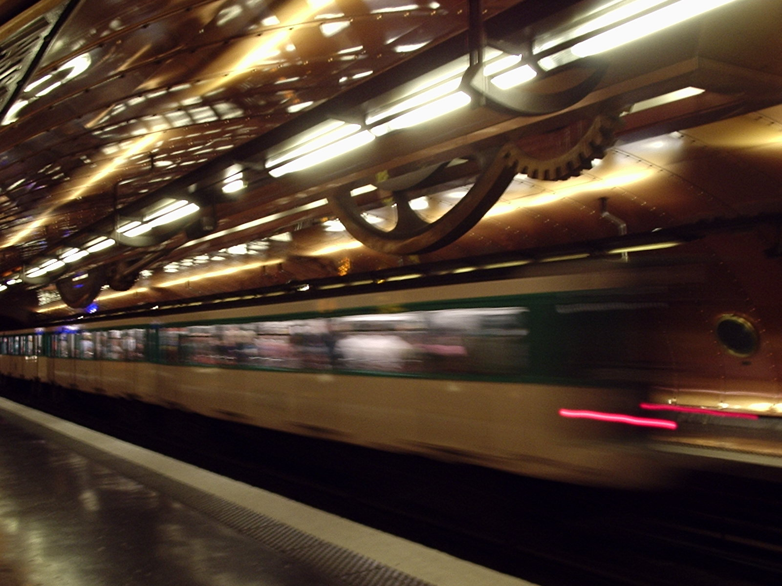 Metro station, Arts et Métiers